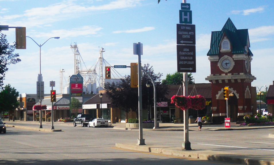 Looking west down Main Street in Steinbach. The city's Millenium clock tower on the right and one of the city's feedmills in the distance to the left.